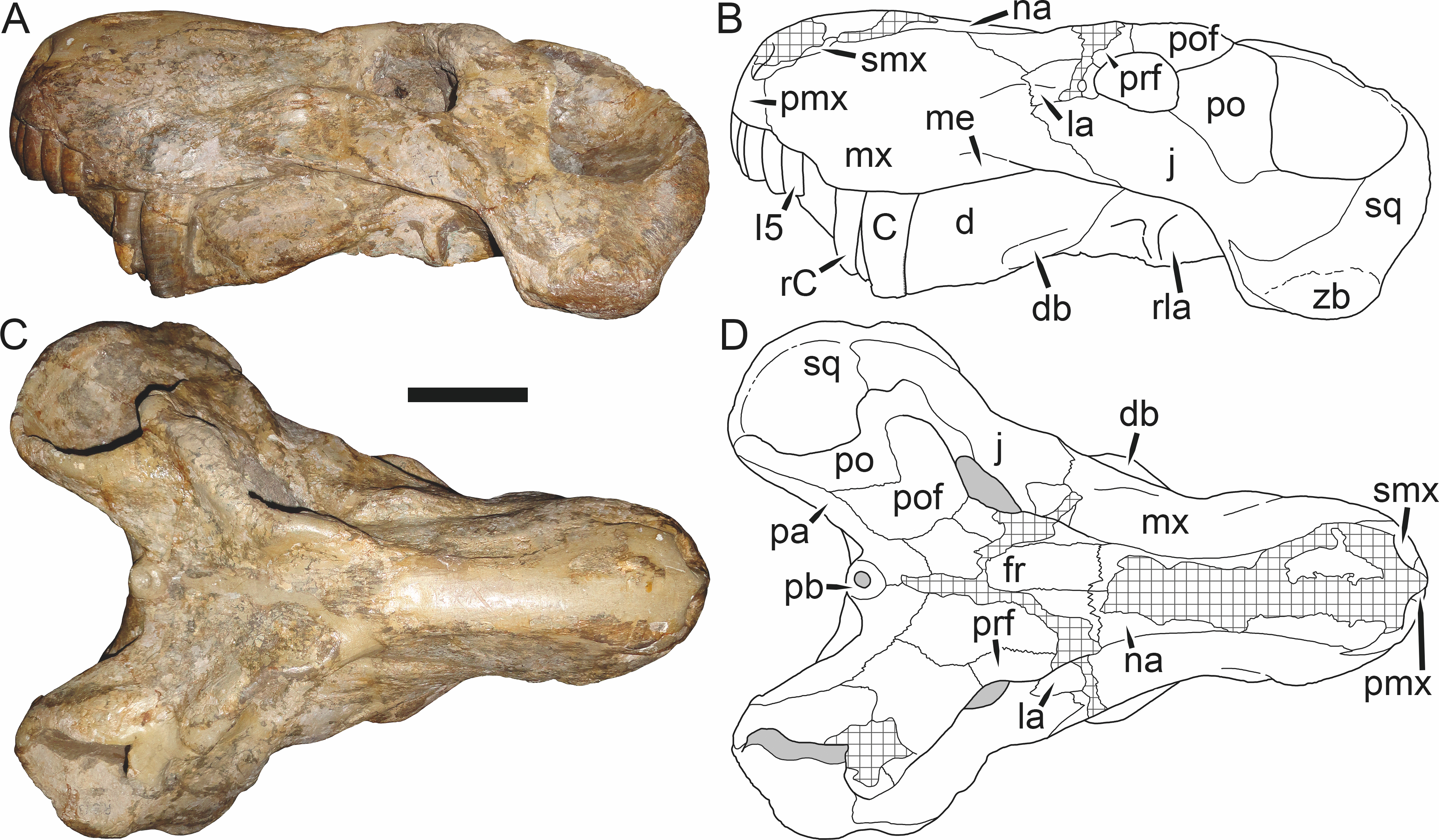 Holotype (RC 13) of Rubidgea atrox Broom, 1938 in (A) left lateral and (C) dorsal view (with (B) and (D) interpretive drawings). Abbreviations: C, upper canine; d, dentary; db, dentary boss; fr, frontal; I, upper incisor; j, jugal; la, lacrimal; me, maxillary emargination; mx, maxilla; na, nasal; pa, parietal; pb, pineal boss; pmx, premaxilla; po, postorbital; pof, postfrontal; prf, prefrontal; rC, erupting replacement canine; rla, reflected lamina of angular; smx, septomaxilla; sq, squamosal; zb, zygomatic boss. Gray indicates matrix, hatching indicates plaster. Scale bar equals 10 cm.